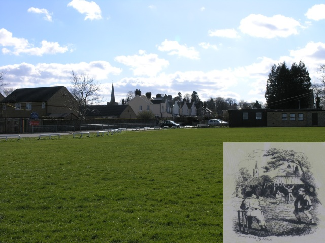 The Old Cricket Ground, West Malling. This field is where the first recorded county cricket match in Kent was played. It's likely that the cricket match between All Muggleton and Dingley Dell in Charles Dickens' Pickwick Papers was inspired by these matches and indeed the spire of the church in the original illustration of the match closely resembles that of nearby St. Mary. The image became widely circulated in the mid 1990s on the back of the British £10, which featured Charles Dickens. Interestingly the image used on the banknote was a mirror image of the original.